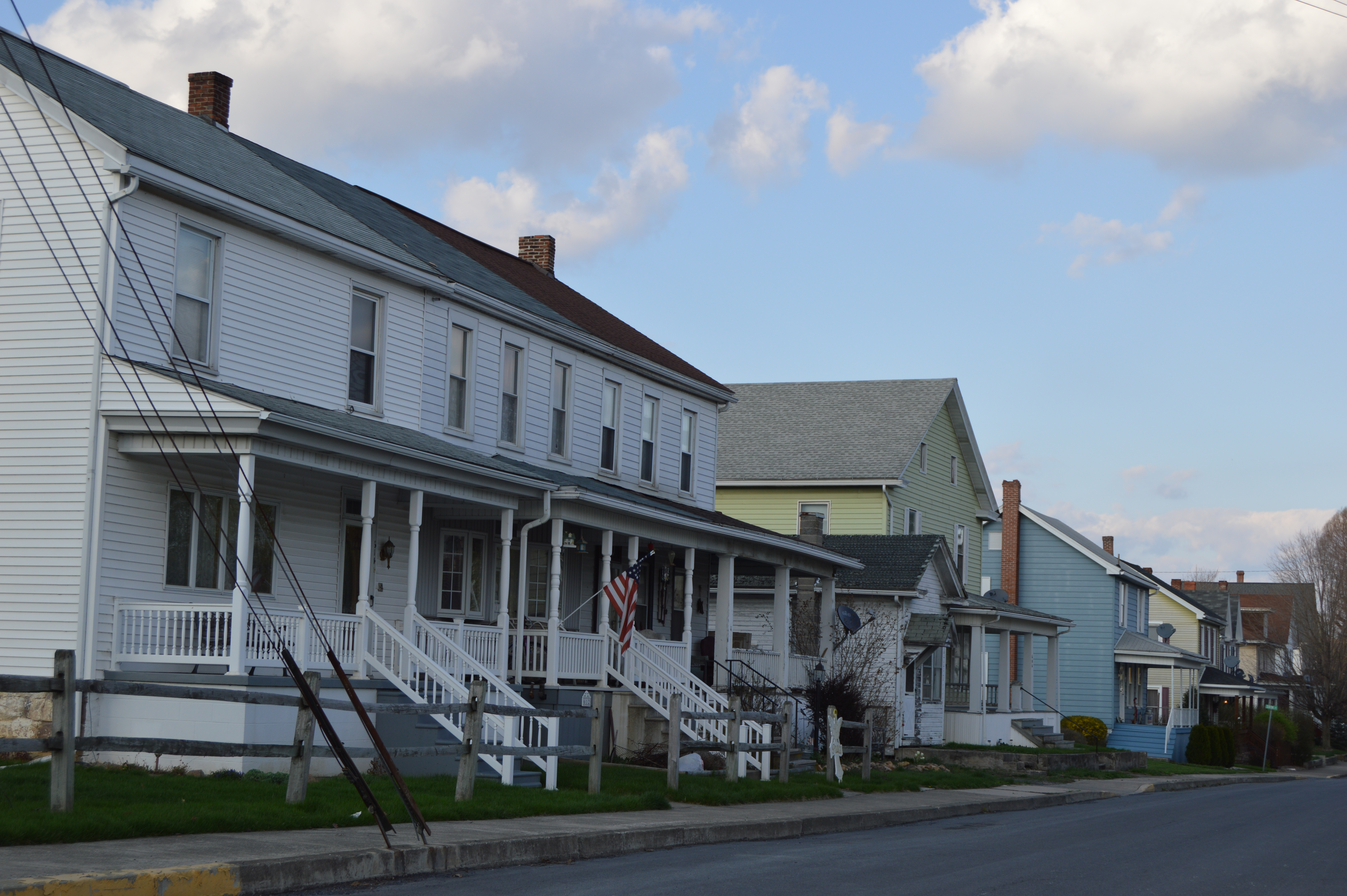 Looking east on Main Street from the Seventh Street intersection in Port Royal, Pennsylvania, United States.